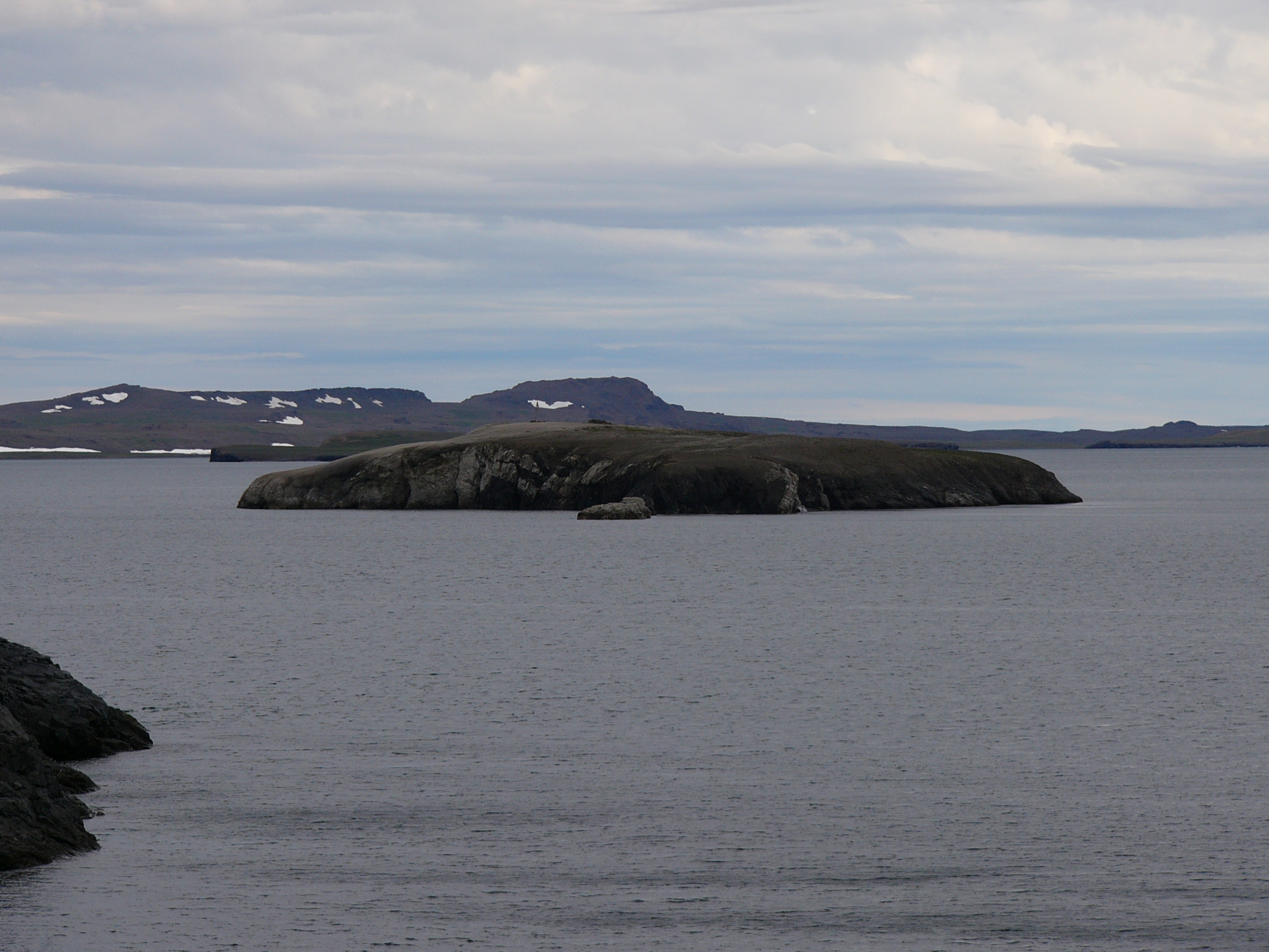 Novaya Zemlya landscapes